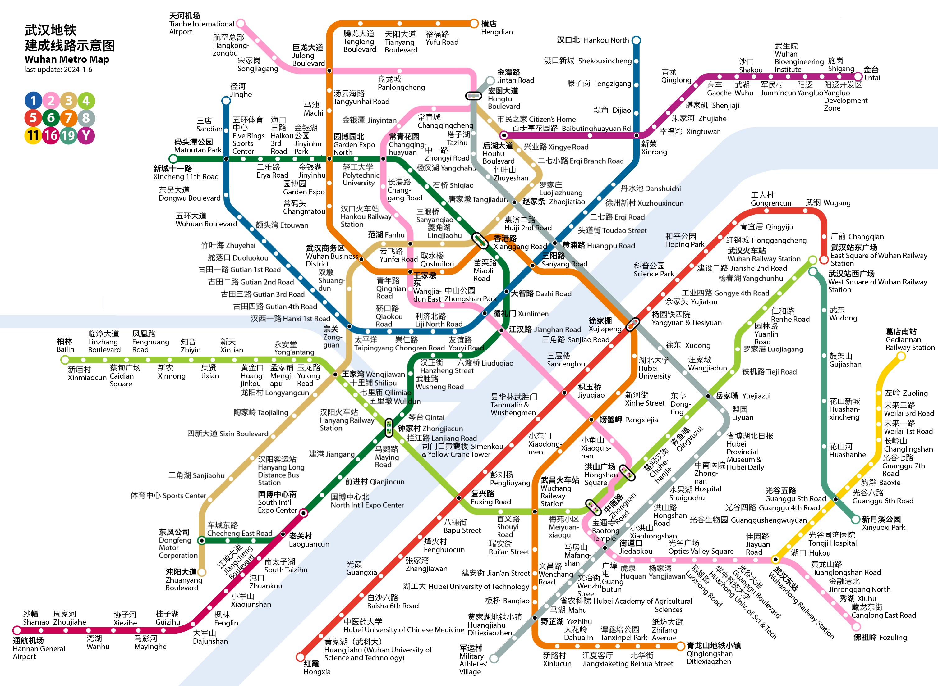 Wuhan Metro bilingual Map